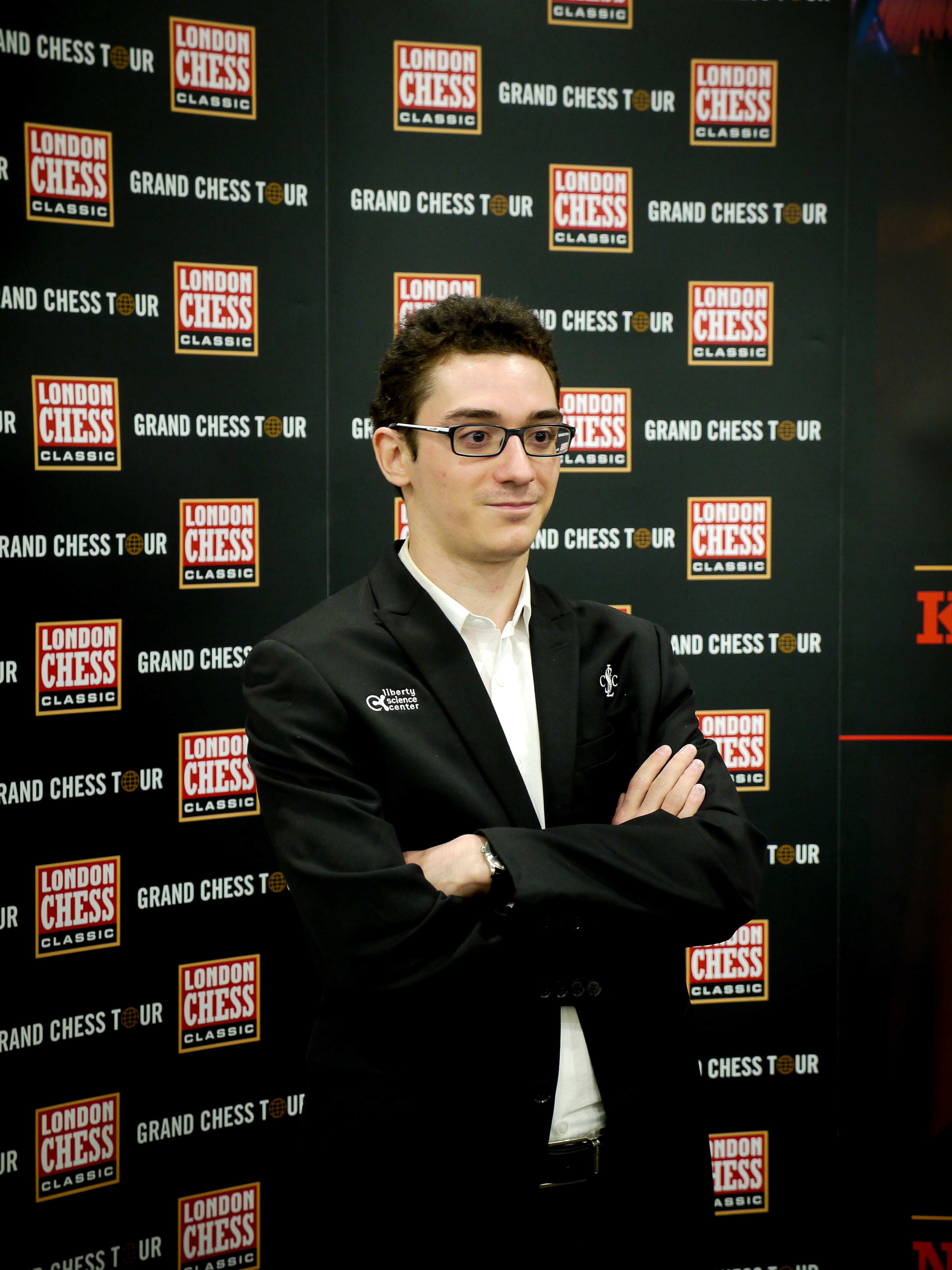 GM Fabiano Caruana, World Nr. 2